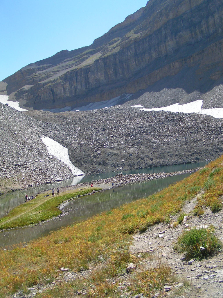 Emerald Lake underneath the glacier on southeast part of Timpanogos.